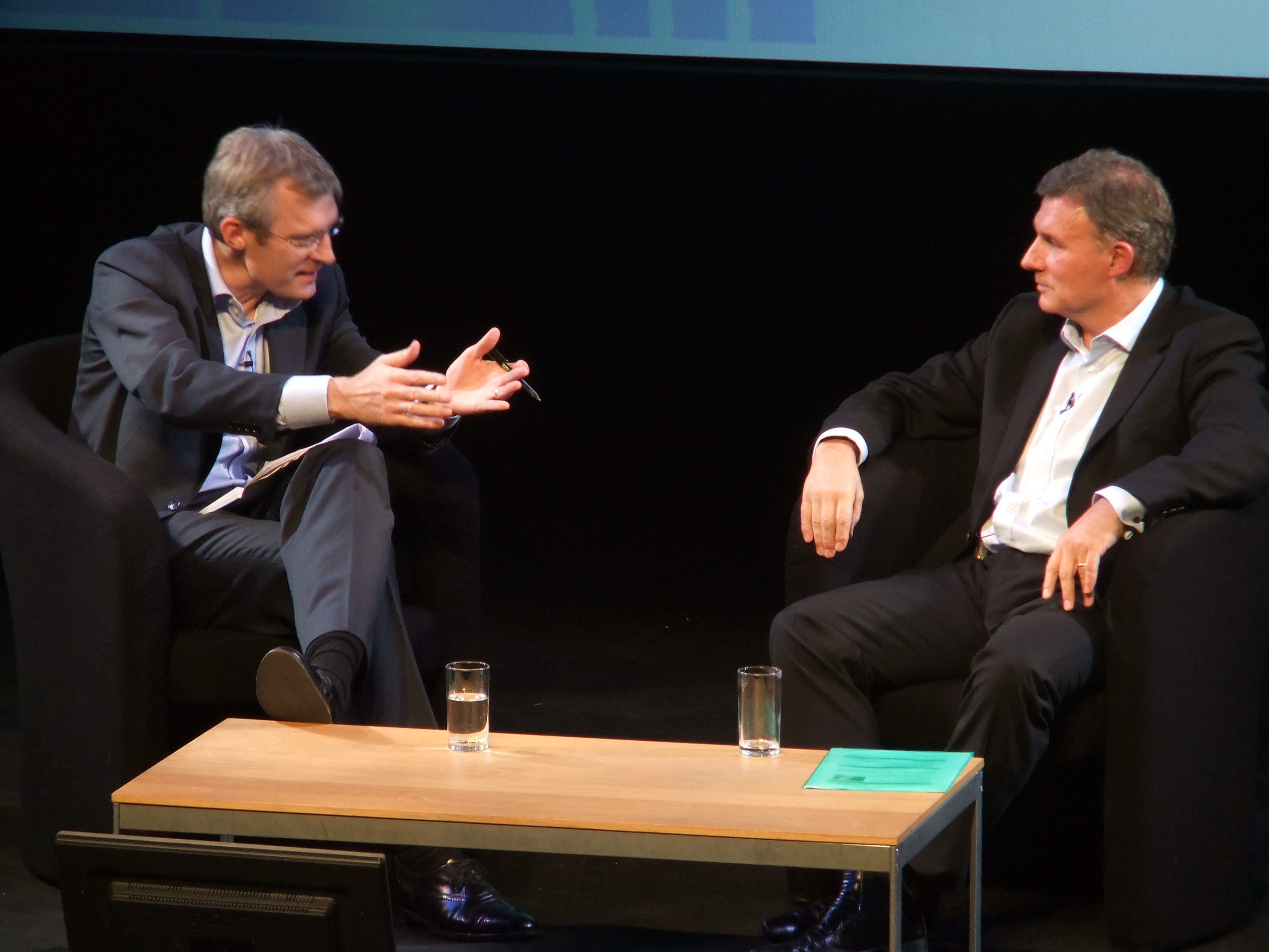 Jeremy Vine and Ford Ennals